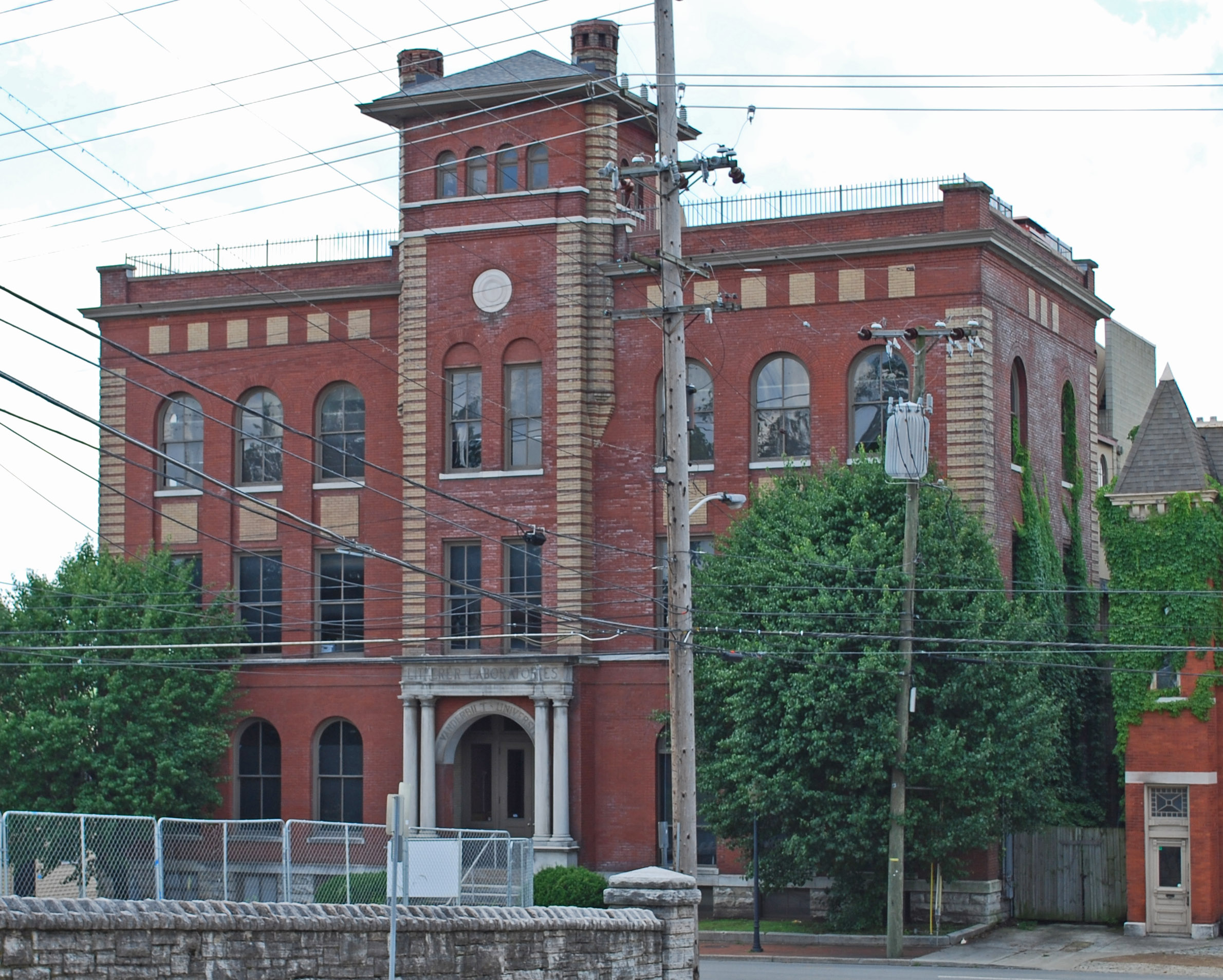 Litterer Labs, Nashville TN